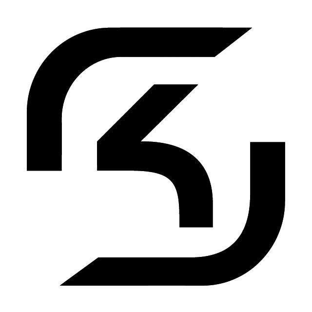 SK Gaming Logo